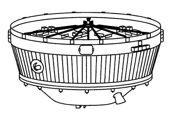 ATV partner of HL-42